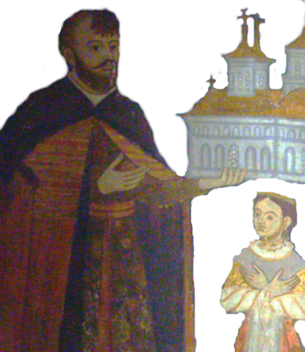 Spatharios Diicul Buicescul, adoptive son and heir of Wallachia's Prince Mateiu Caragiale, depicted as ktitor, alongside daughter Ancuța, in Clocociov Monastery, Slatina, Romania.